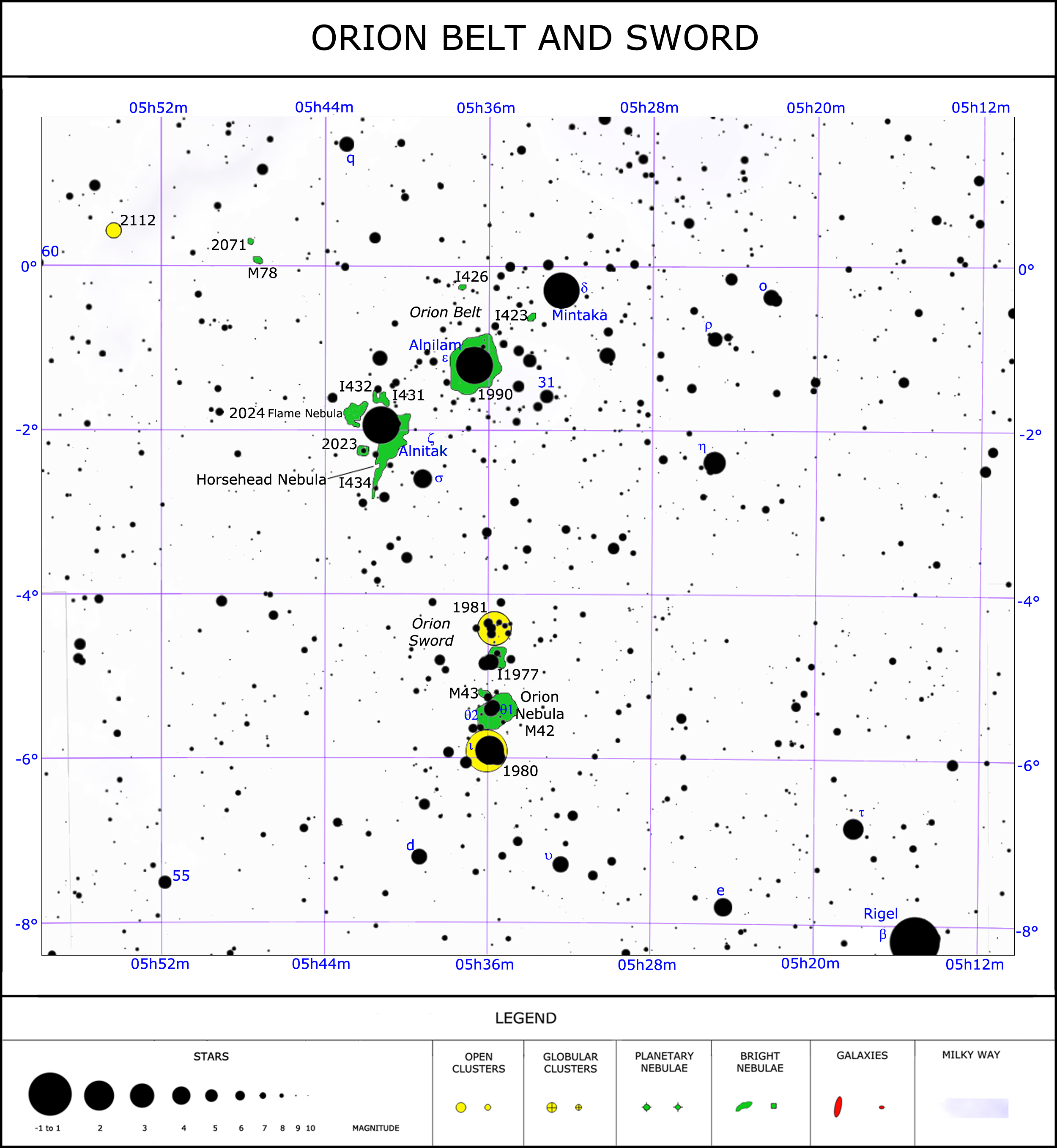 Map of the Orion Belt and Orion Spur from a southern perspective.